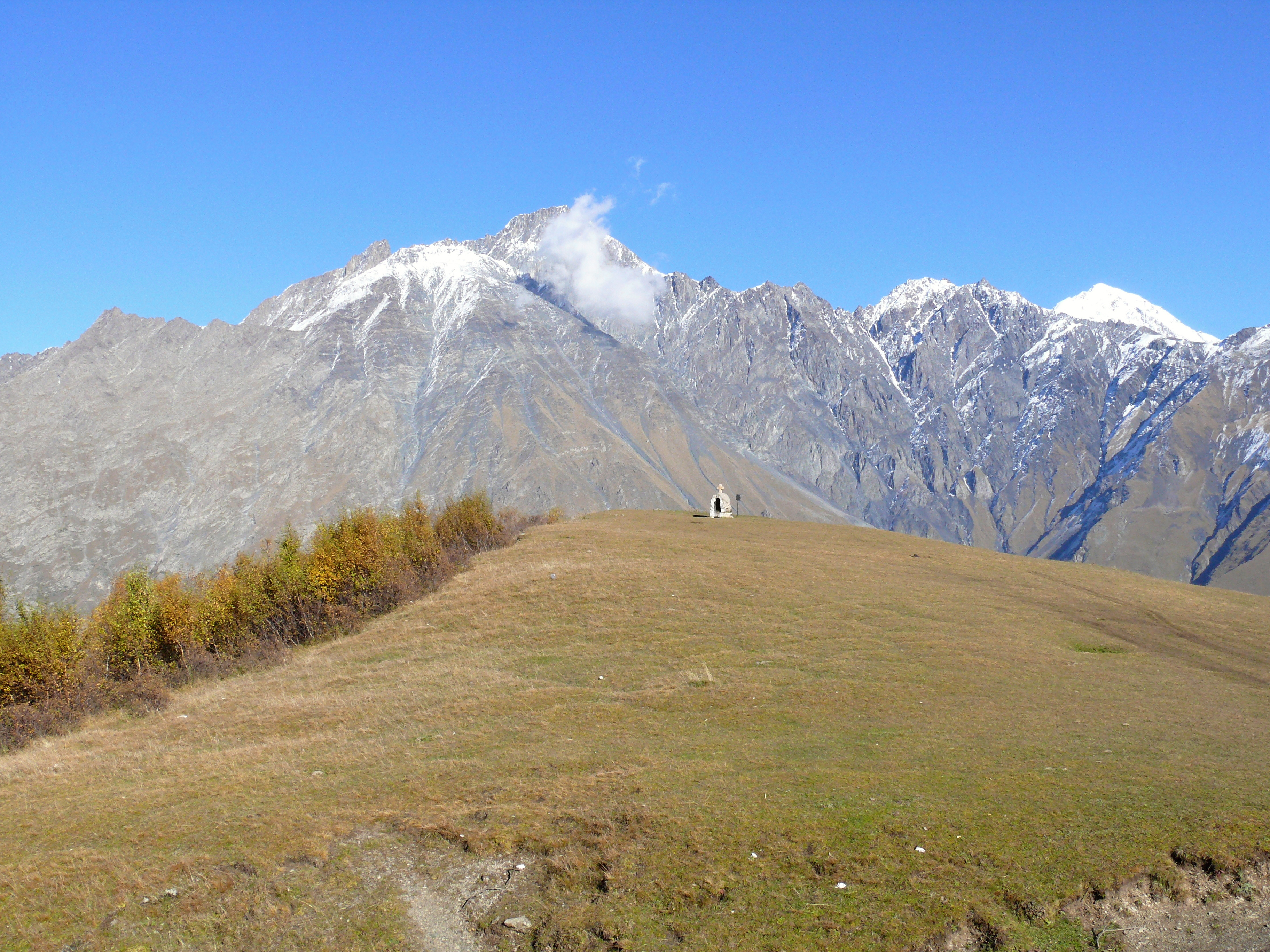 Shoani (Shaní) mountain (biggest peak partially covered by cloud). View from Gergeti plateau in October 2014.